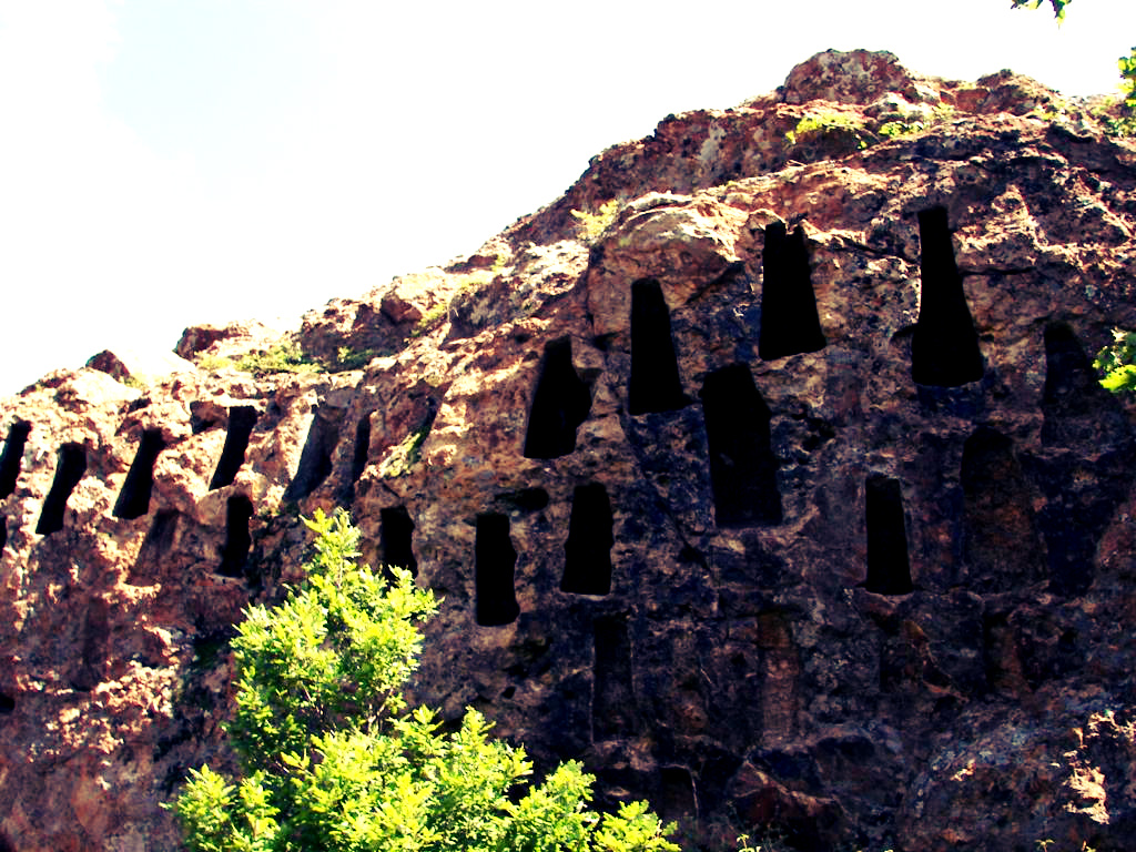 Drumche Sanctuary East Rhodopes BG